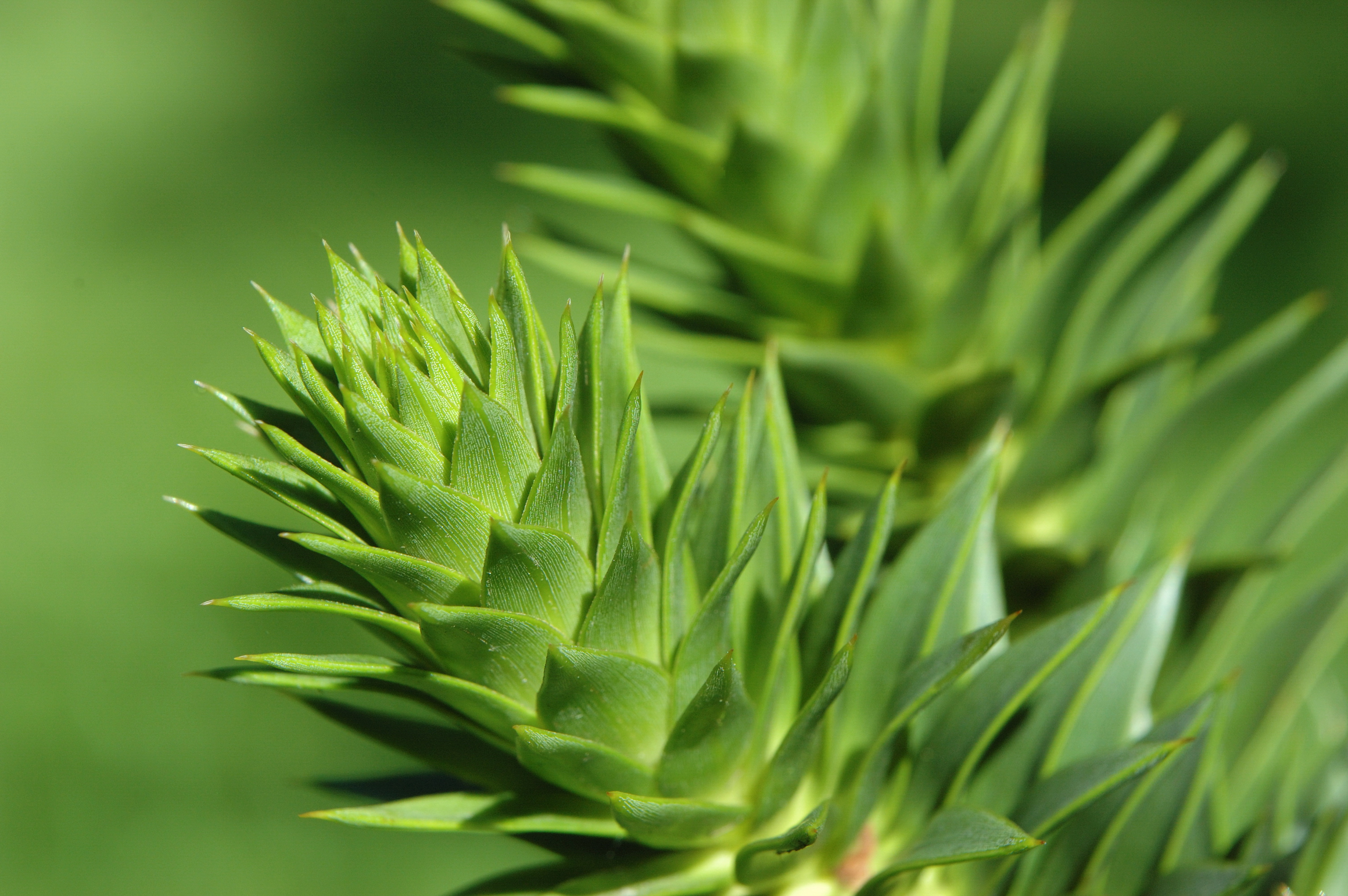 Araucaria araucana